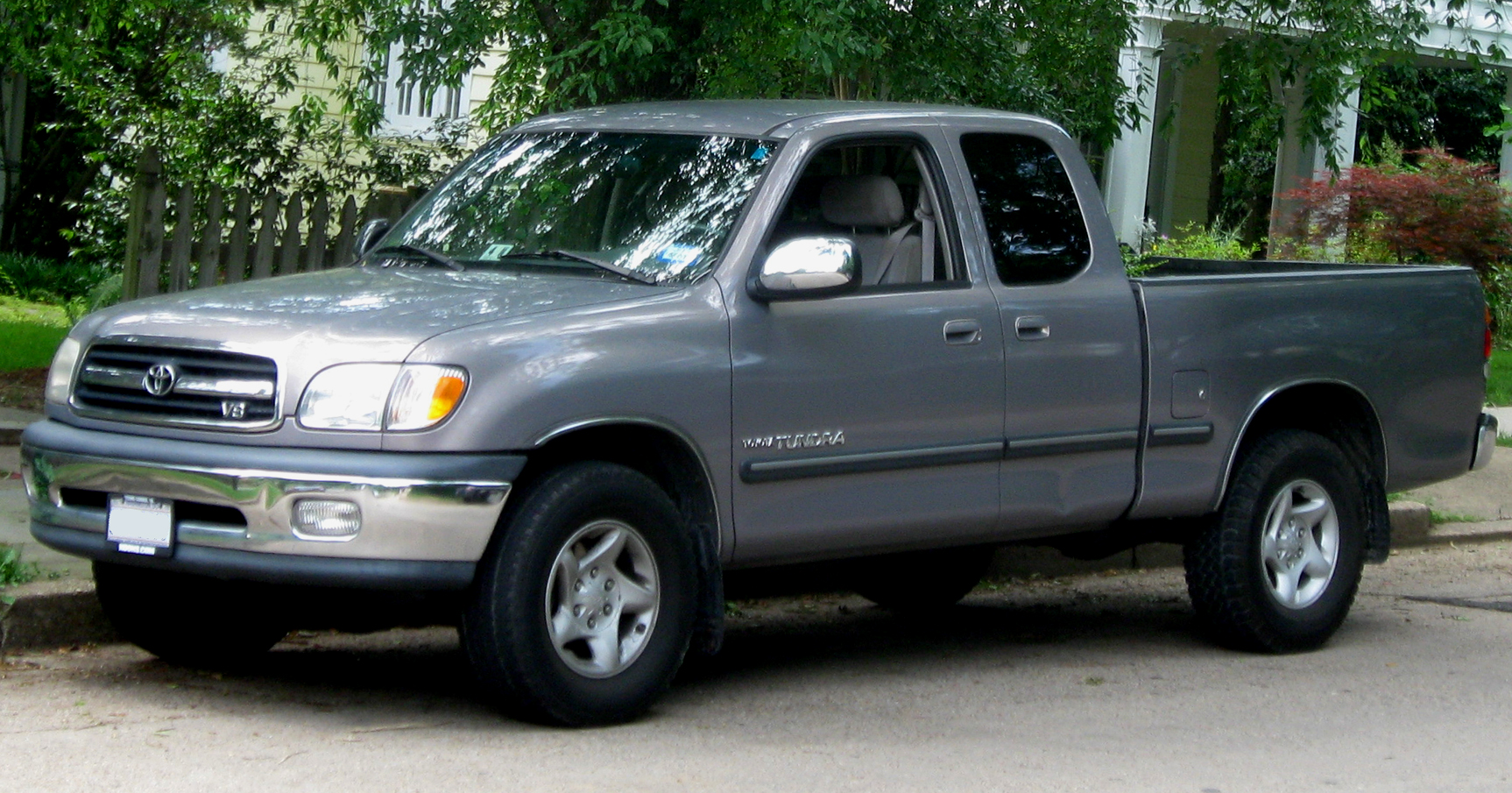 2000-2002 Toyota Tundra photographed in Washington, D.C., USA.